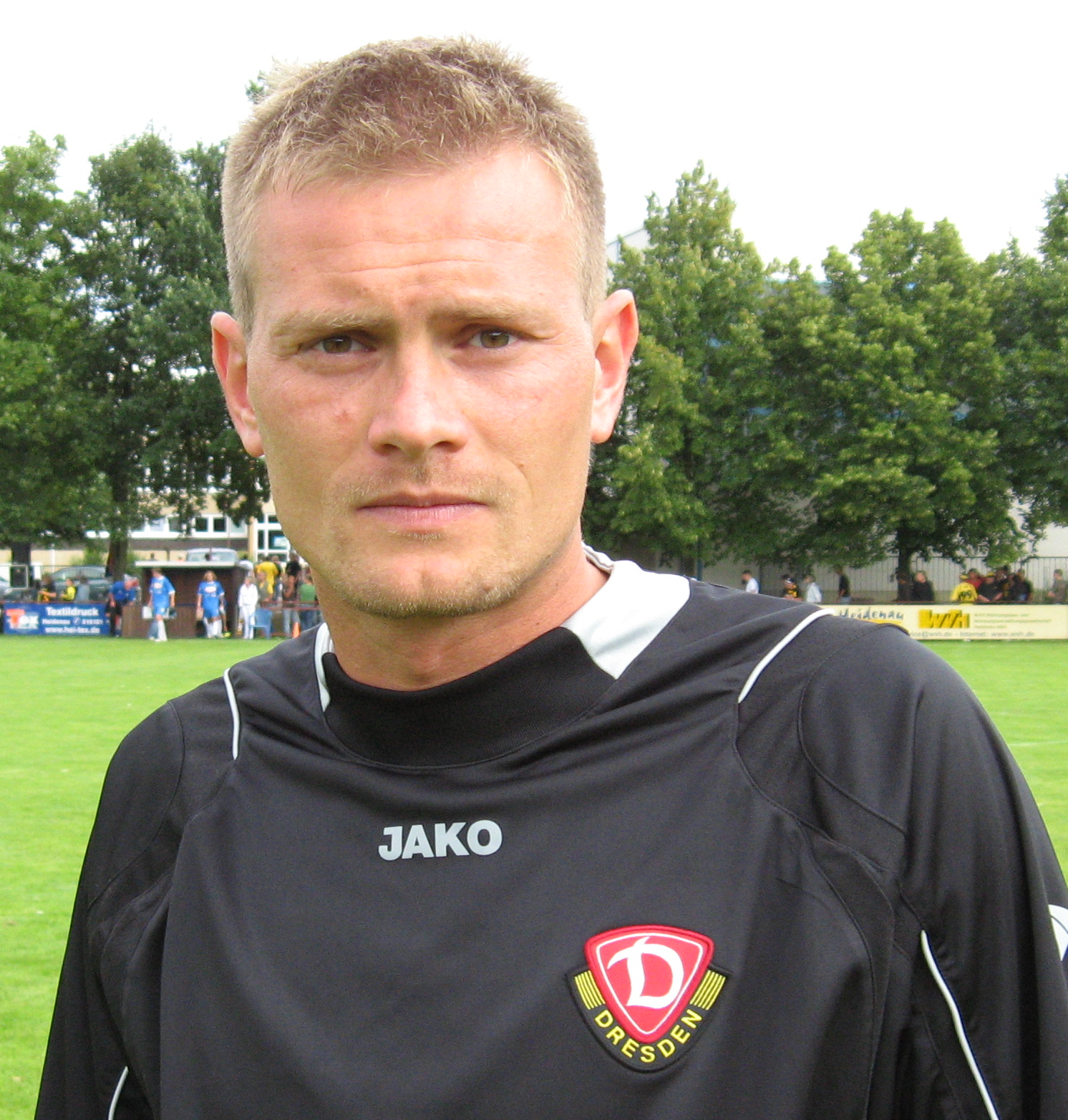 Axel Keller after a testmatch between SG Dynamo Dresden and FK Siad Most at Heidenau Sportforum.